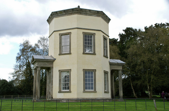 Tower of the Winds at Shugborough The original Tower of the Winds in Athens was an octagonal tower featuring carvings in relief, each depicting the nature of the wind. On the top of the tower was a bronze weathervane. Shugborough's version was completed in 1765 by James 'Athenian' Stuart. Eighteenth century paintings show this building could also boast copies of the carvings and weathervane, but today there is no trace of these features. The tower was originally surrounded by water, being situated at the end of an ornamental lake, and was linked to the land by two bridges. The ground floor windows were inserted in 1803 when Samuel Wyatt converted the building into an ornamental dairy for Lady Anson. It was rumoured that the 1st Earl of Lichfield used the tower as a gambling den.